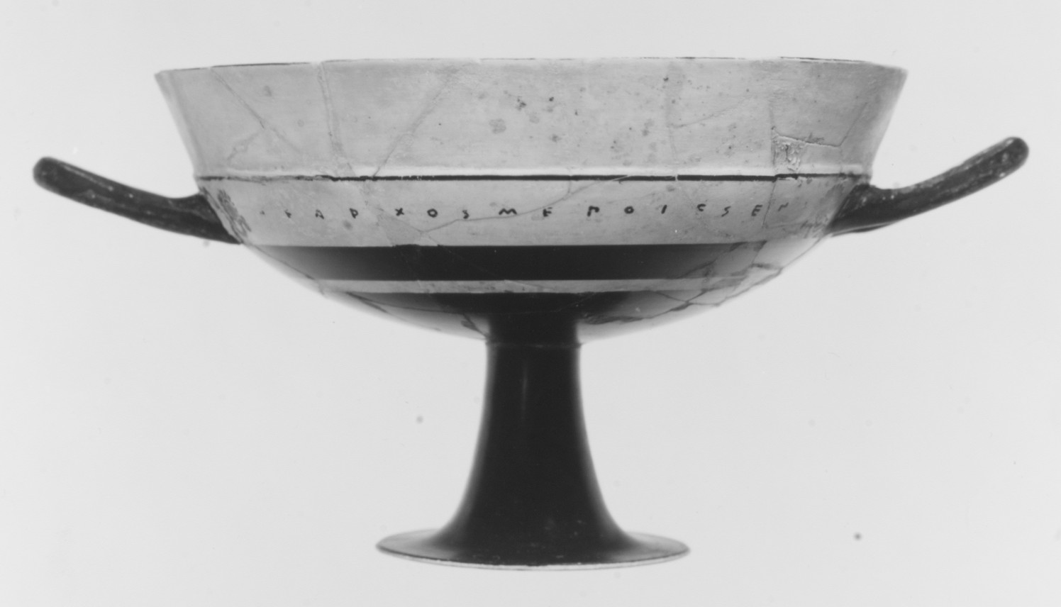 Greek, Attic; Kylix, lip-cup; Vases